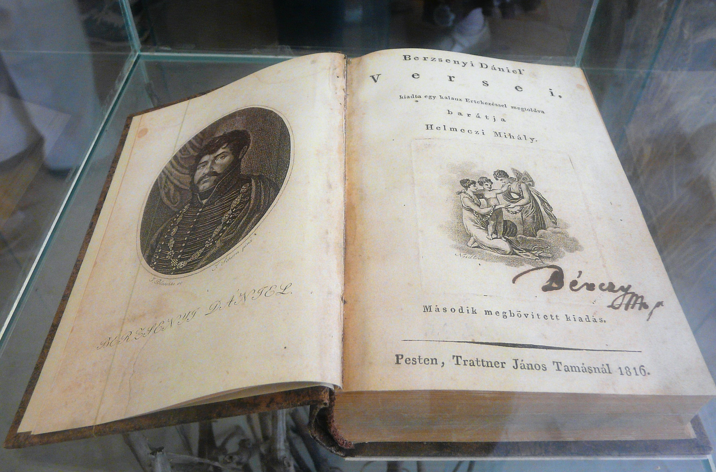 Poetry collection of Dániel Berzsenyi (1816) in the Memorial house (Egyházashetye)